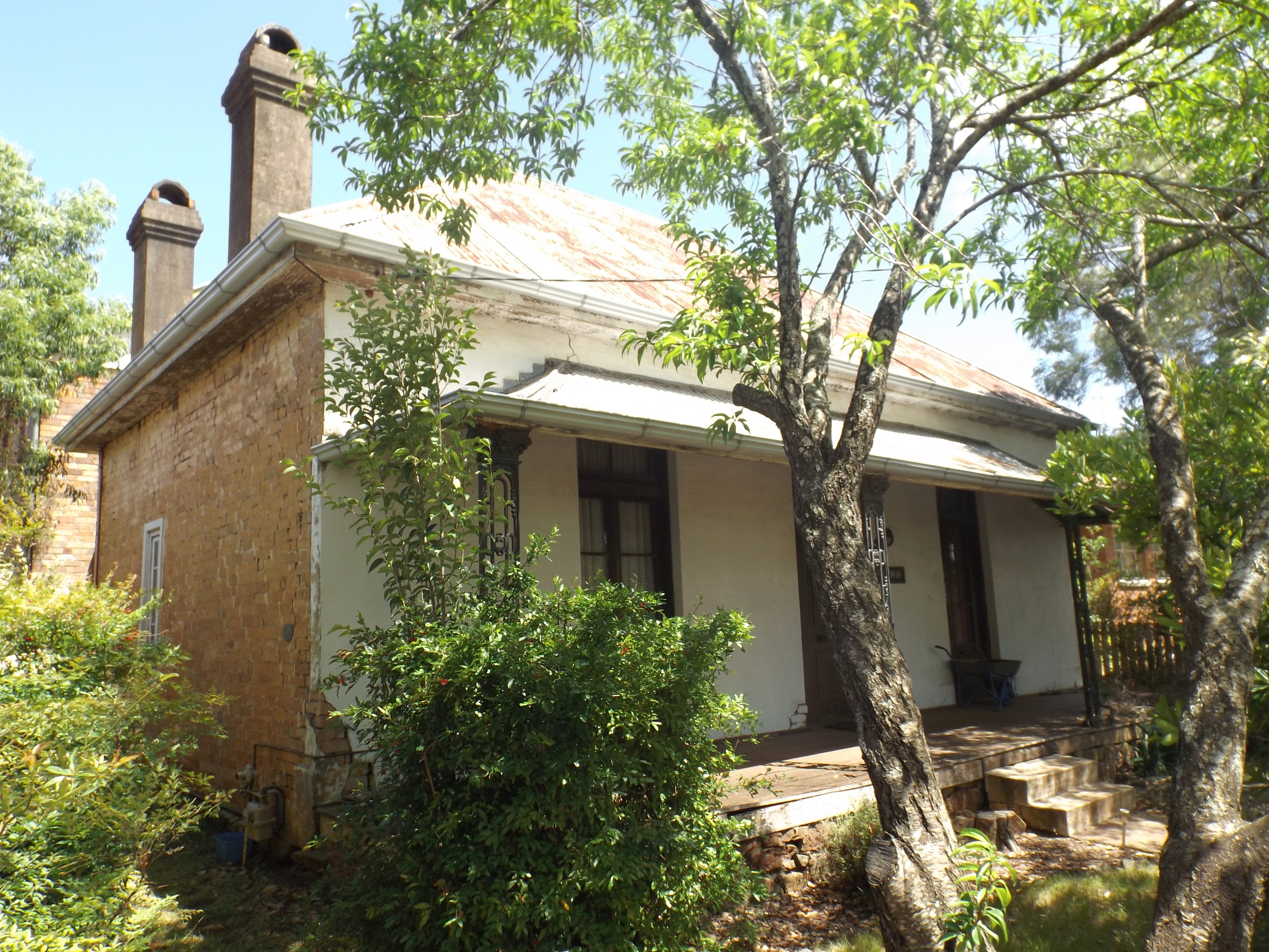 Photo of Tawa residence in Boulton Terrace, Toowoomba City, Queensland, Australia.